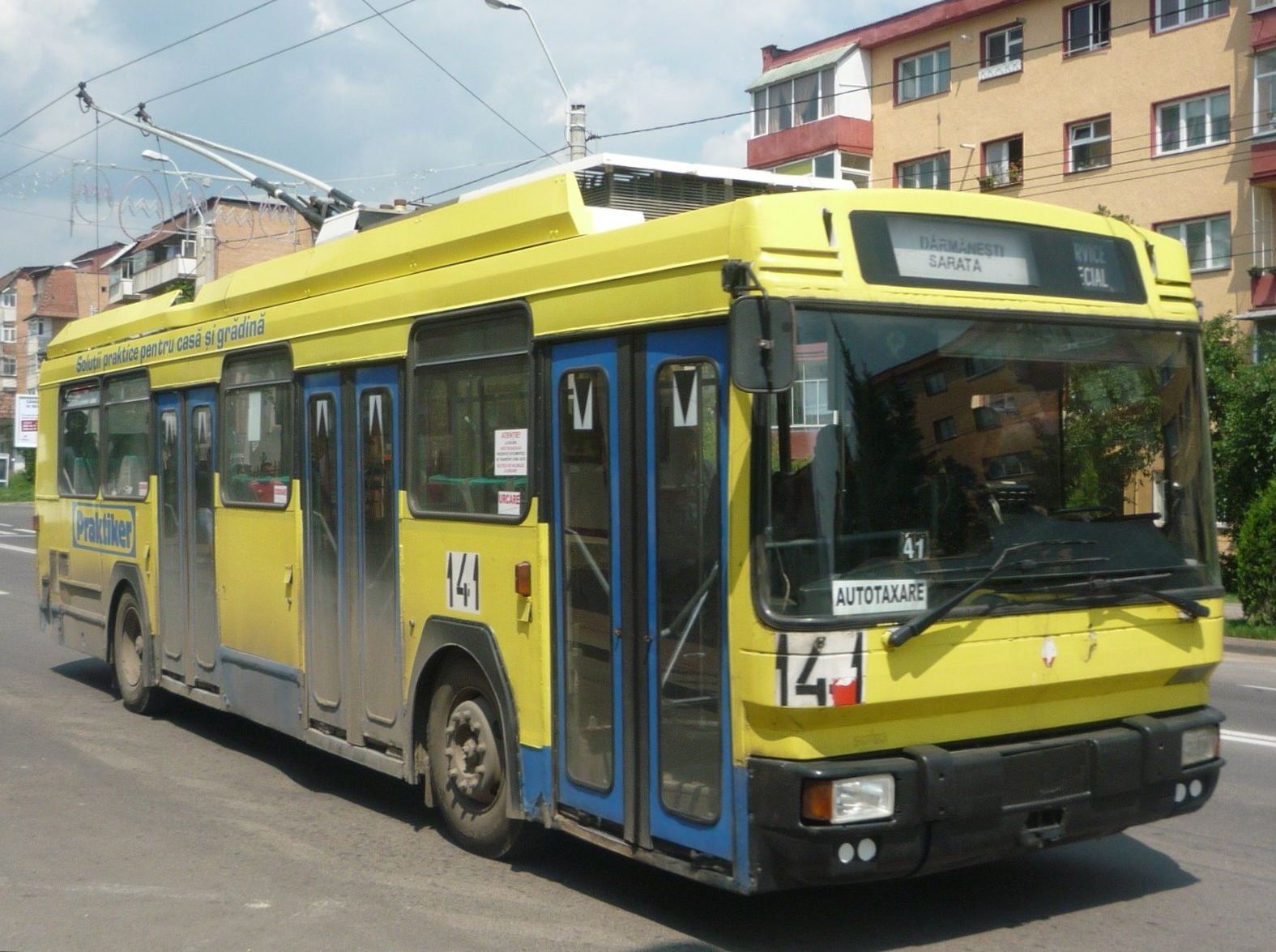 Piatra Neamț trolleybus 141 is a Berliet ER100R trolleybus built around 1978 for the Lyon trolleybus system. It was acquired by Piatra Neamț in 2005 or 2006, and was renumbered from its Lyon fleet number (not known) to 141. It originally retained its Lyon fleet livery, but by the date of this photo (2010), it had been repainted into a Piatra Neamț livery.